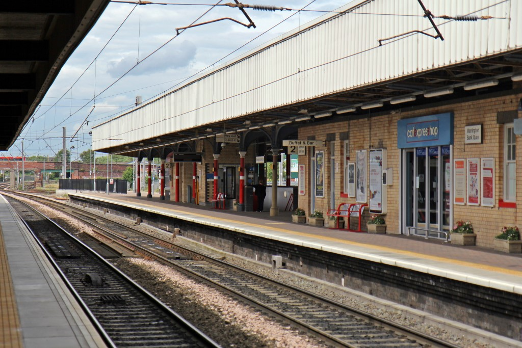 Platform 2, Warrington Bank Quay railway station